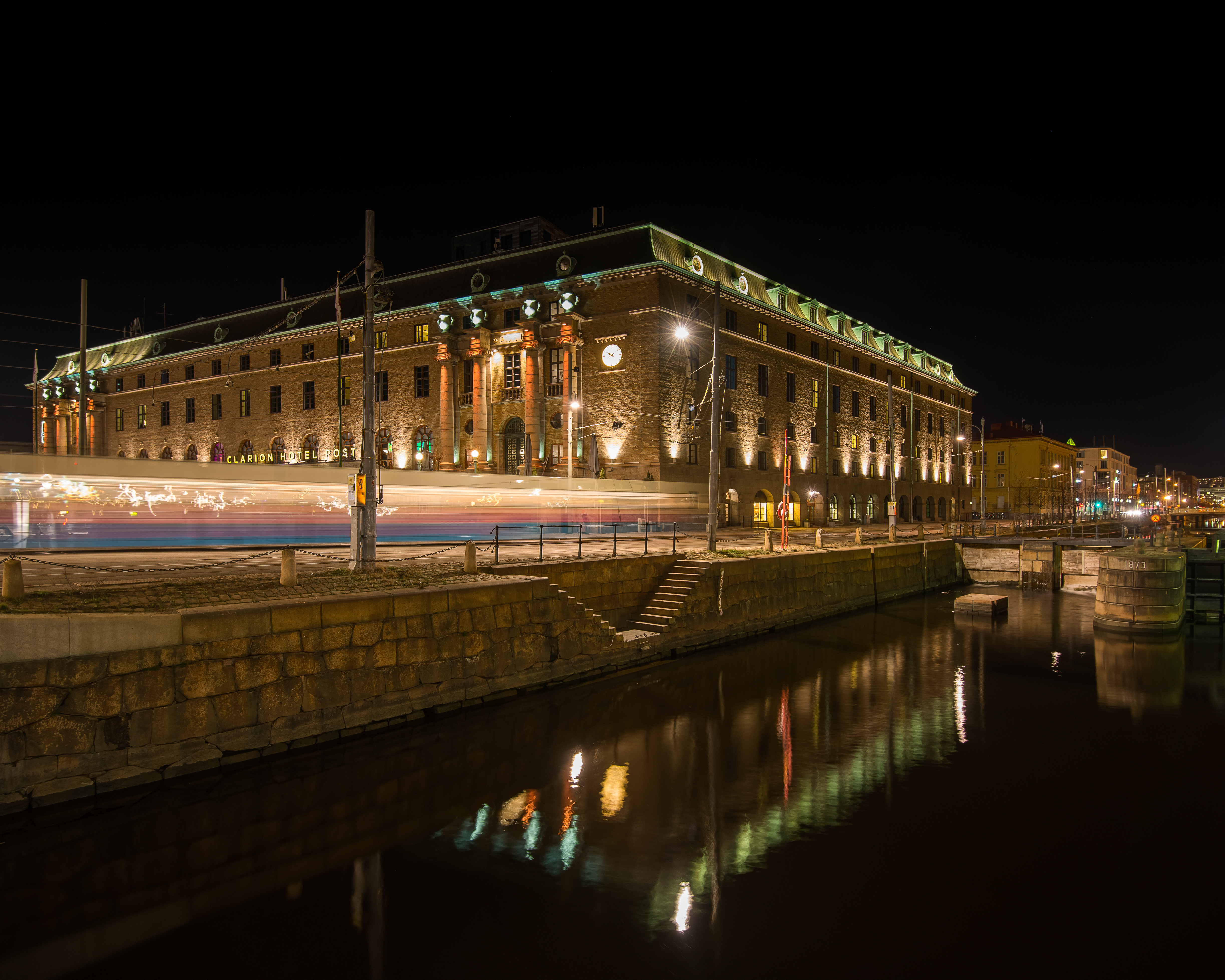 Former central post office building in Gothenburg, Sweden. Today, Clarion Hotel Post.